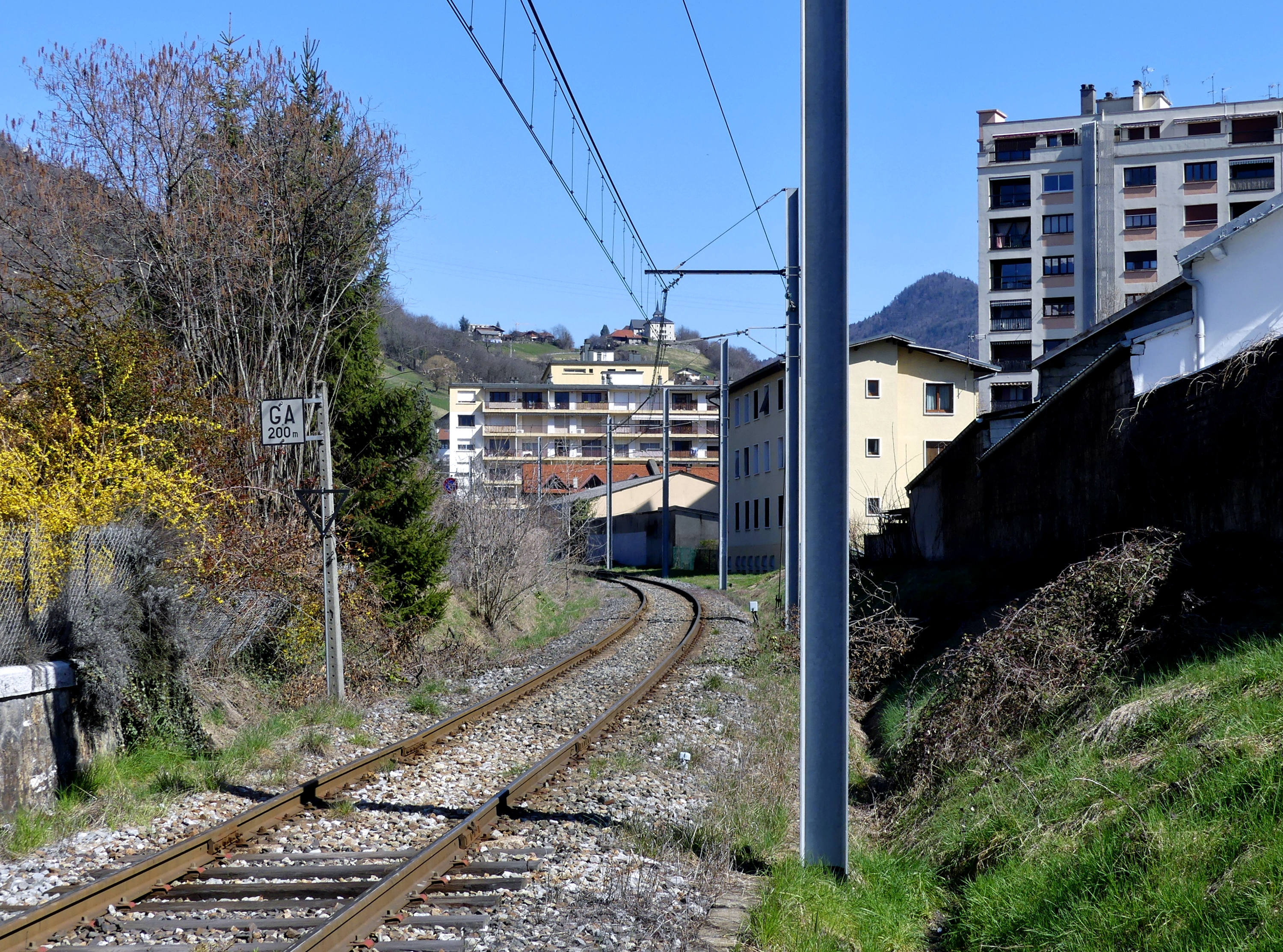 Sight of the old railway line from Albertville to Annecy when leaving Albertville, whose first part to Ugine is still used for local freight serving, in Savoie, France.